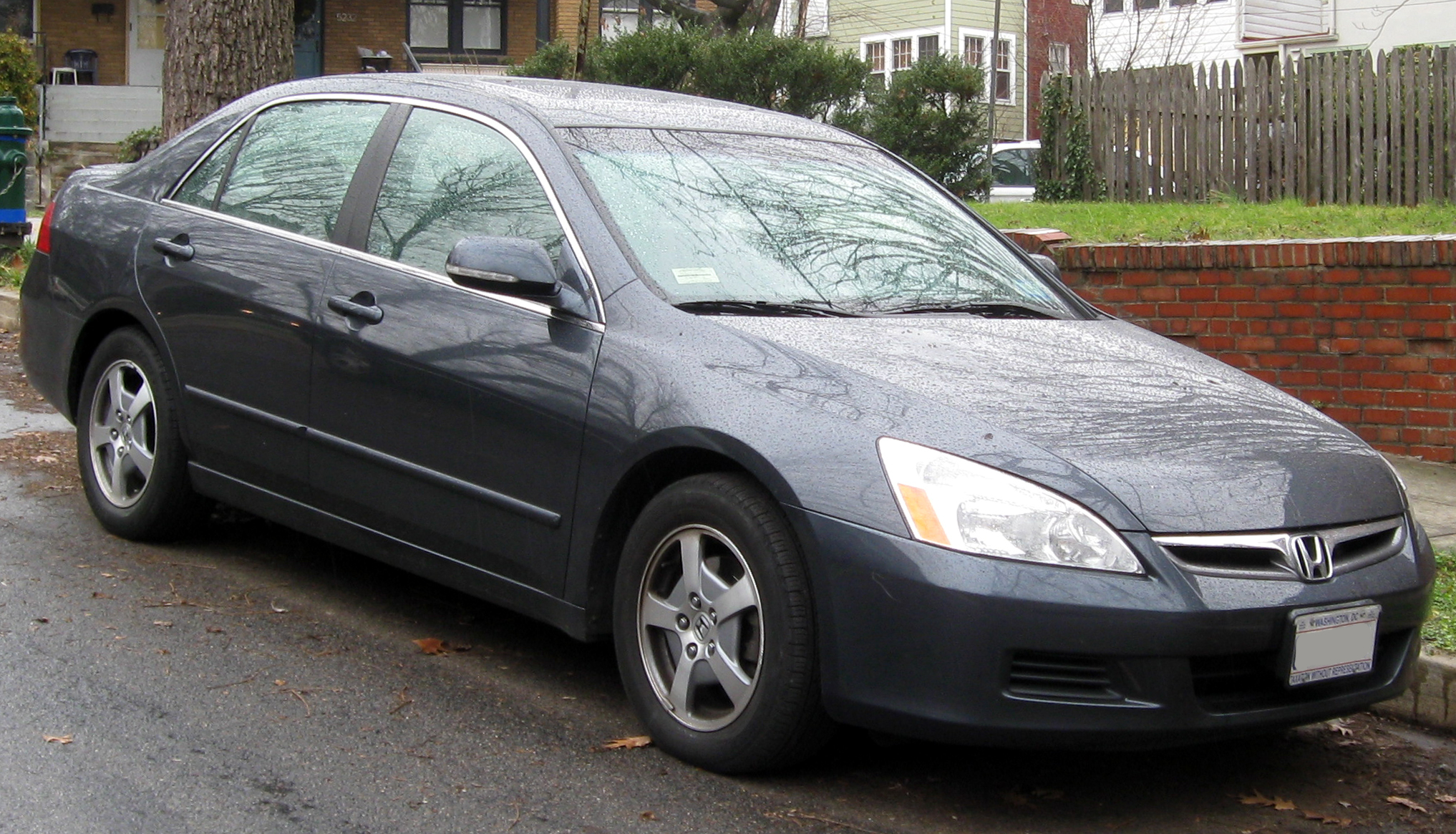 2006-2007 Honda Accord Hybrid photographed in Washington, D.C., USA.